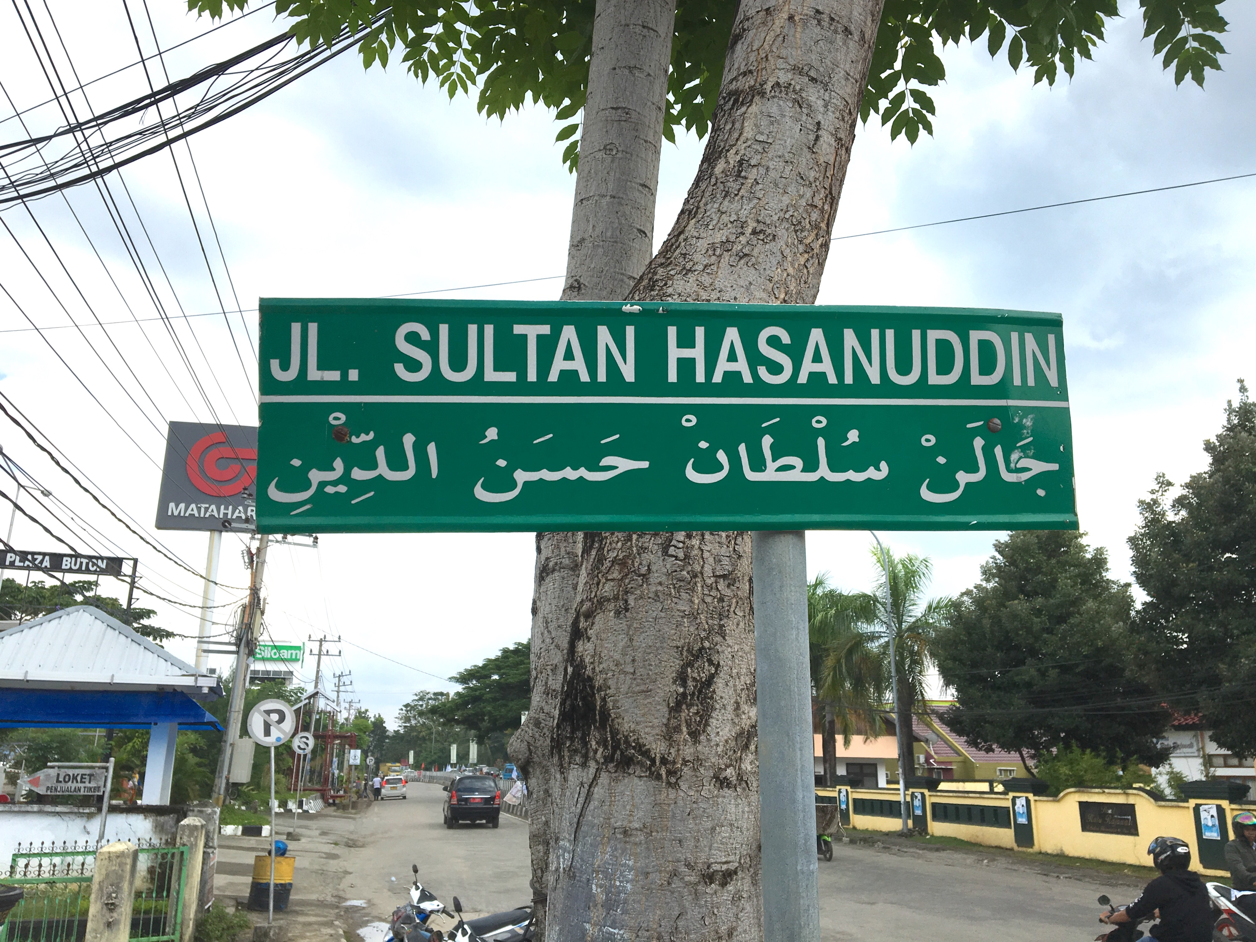 A dual-language street sign, Jl. Sultan Hasanuddin, in Indonesian written in Roman and Arabic scripts